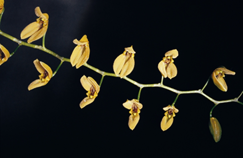 Effusiella immersa